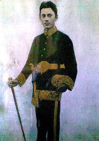 Pangeran Ahmad syafe'i, gelar Suttan Ratoe Pikoeloen, anak dari Pangeran Djajadilampoeng II